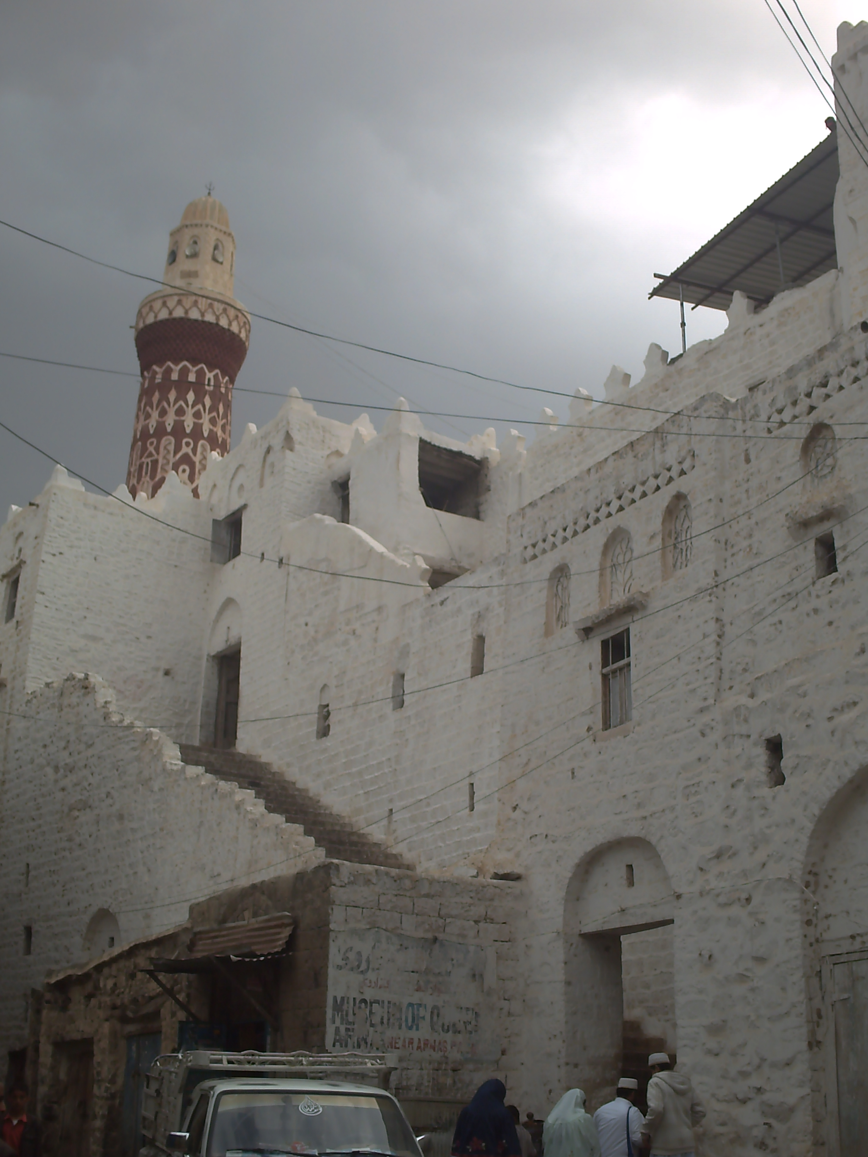 Hurrat-ul Malaika Mosque view from entrance, Jibla.